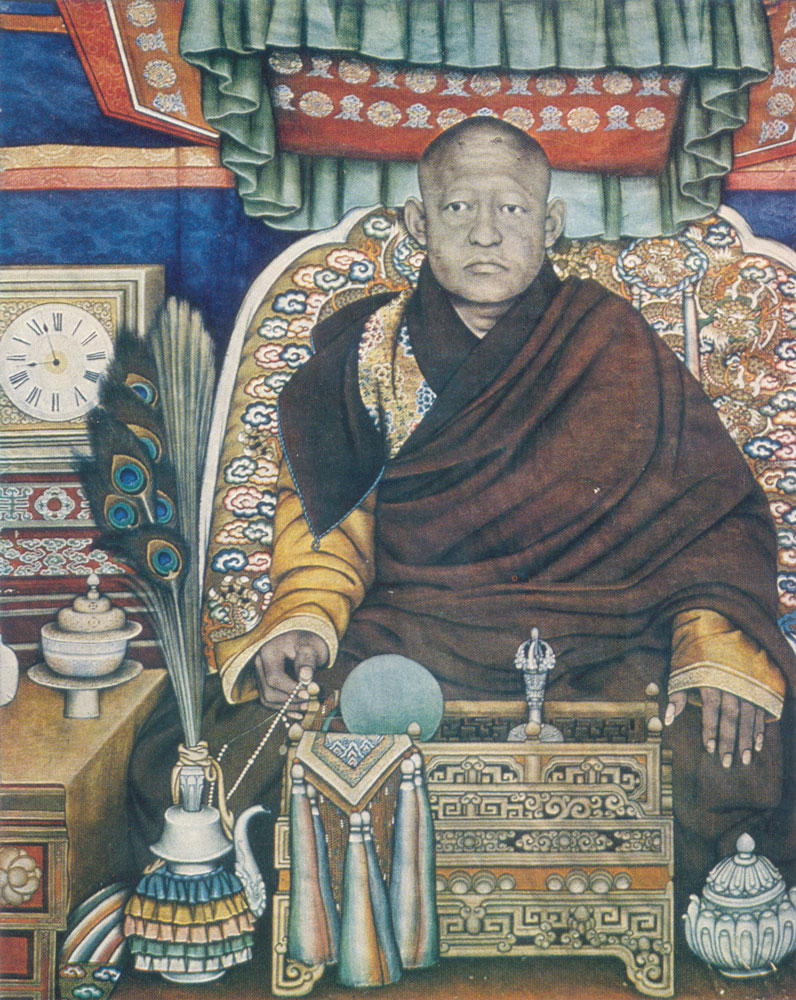 Depicted person: Bogd Khan – Great Khan of Outer Mongolia